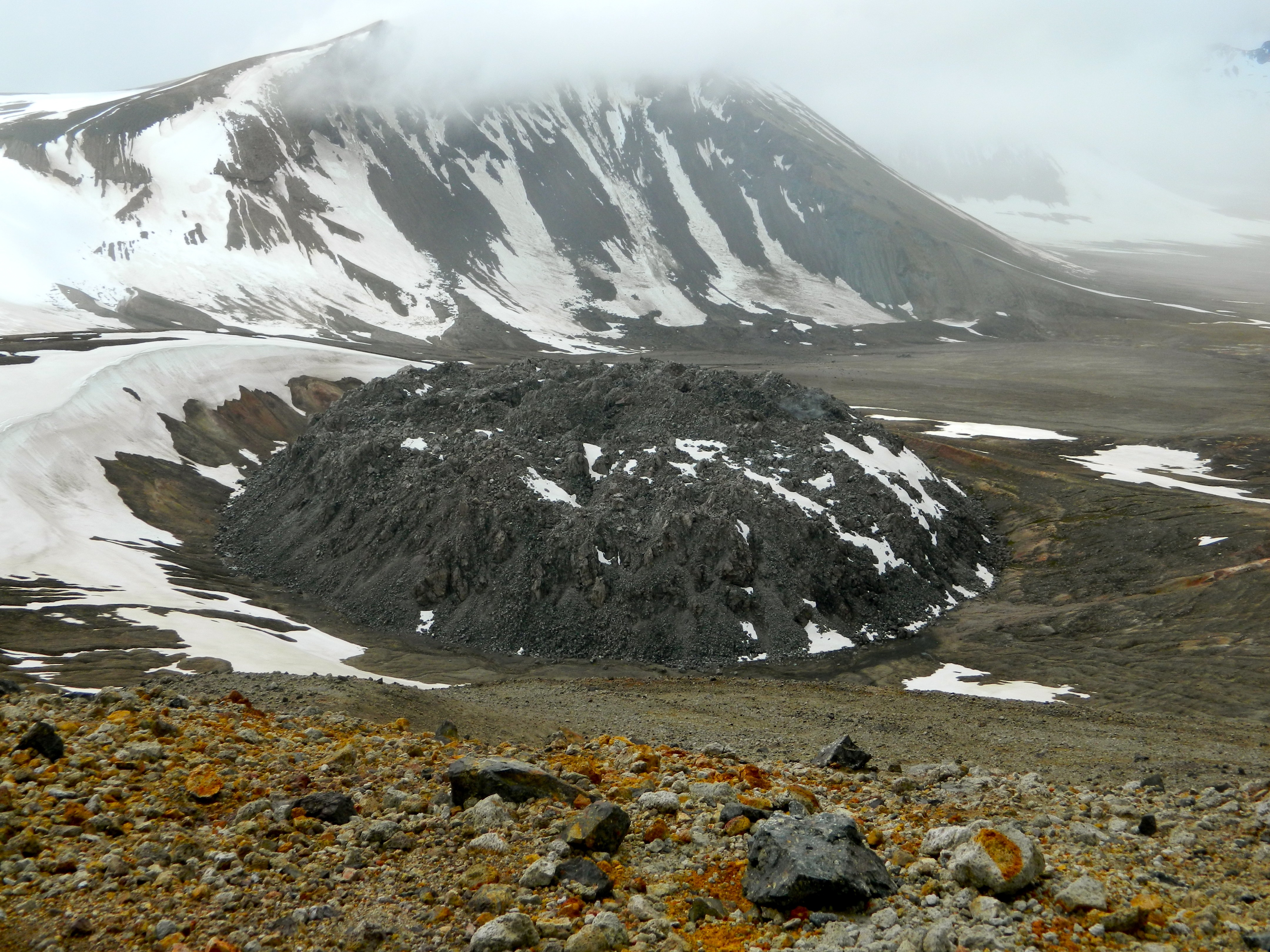 The lava dome named Novarupta marks the vent of the 1912 eruption. NPS photo by M. Fitz.